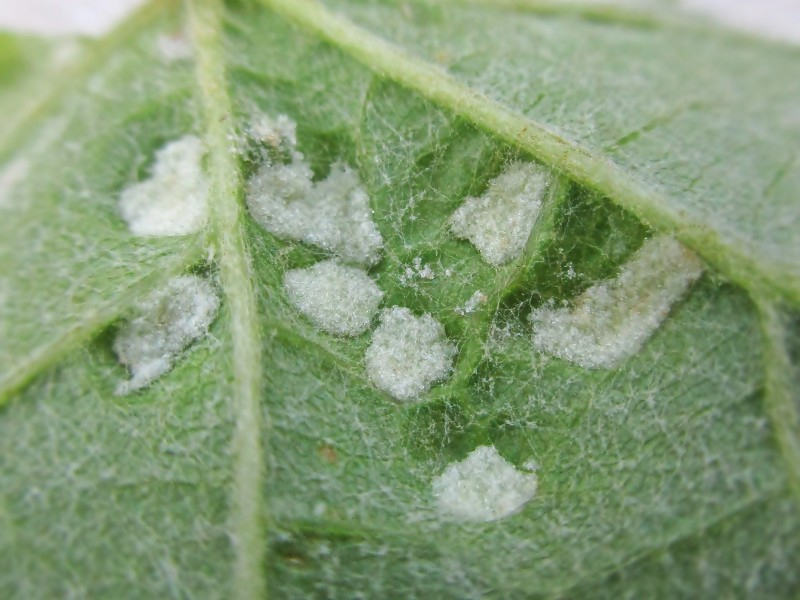 Colomerus vitis (Eriophyes vitis), Arnhem, the Netherlands